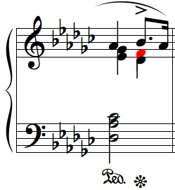 Excerpt from Chopin's Etude Op. 10 No. 5, showing the F-natural: only white key in the right hand figure.